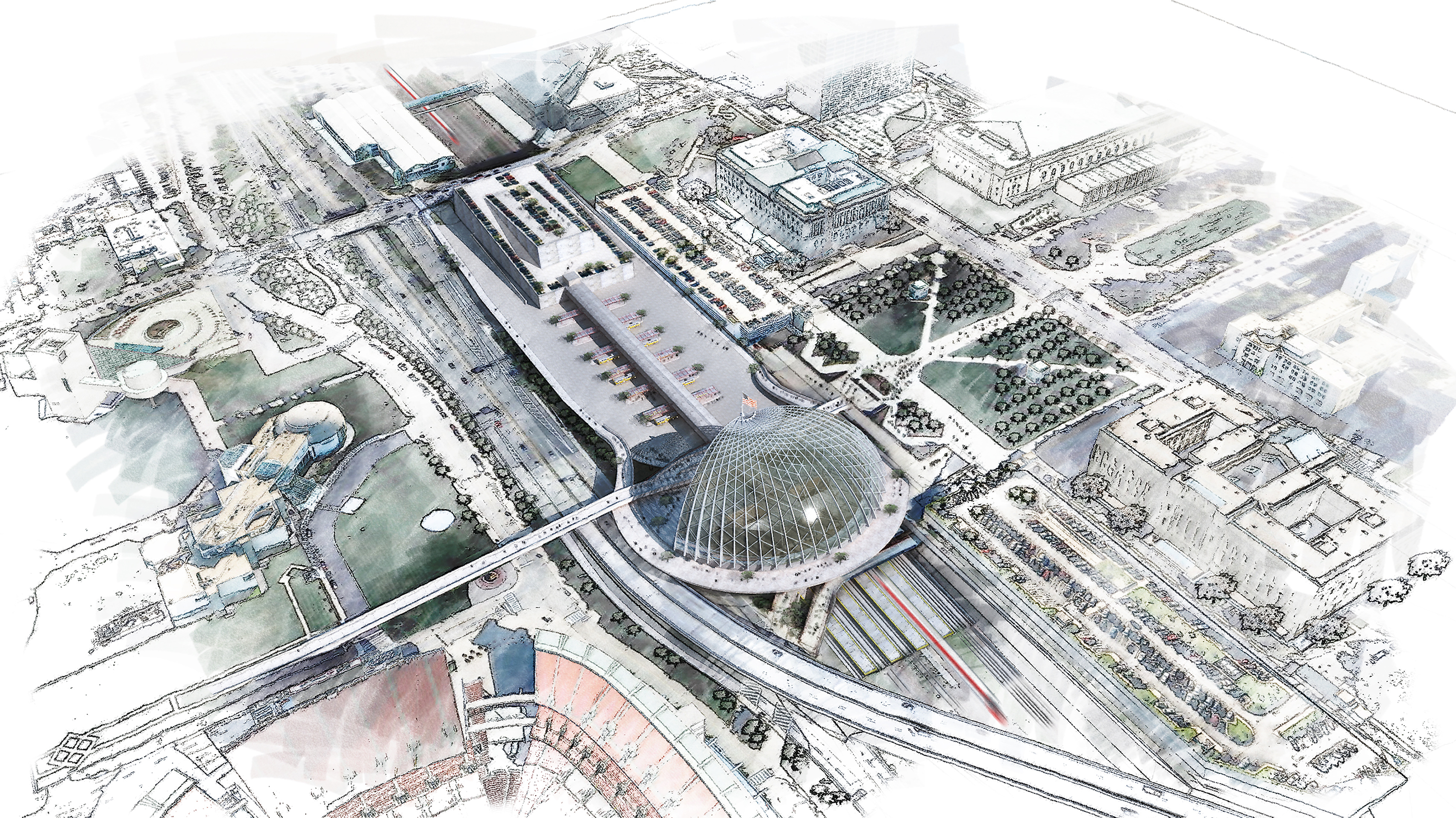 Birds eye view of the proposed municipal project in Cleveland, Ohio that won a 2010 Award of Excellence from the American Society of Architectural Illustrators (ASAI)